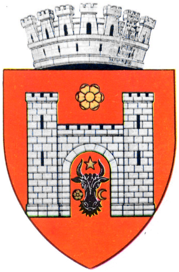 Interwar coat of arms of Chernivtsi, Cernăuți County, Kingdom of Romania.